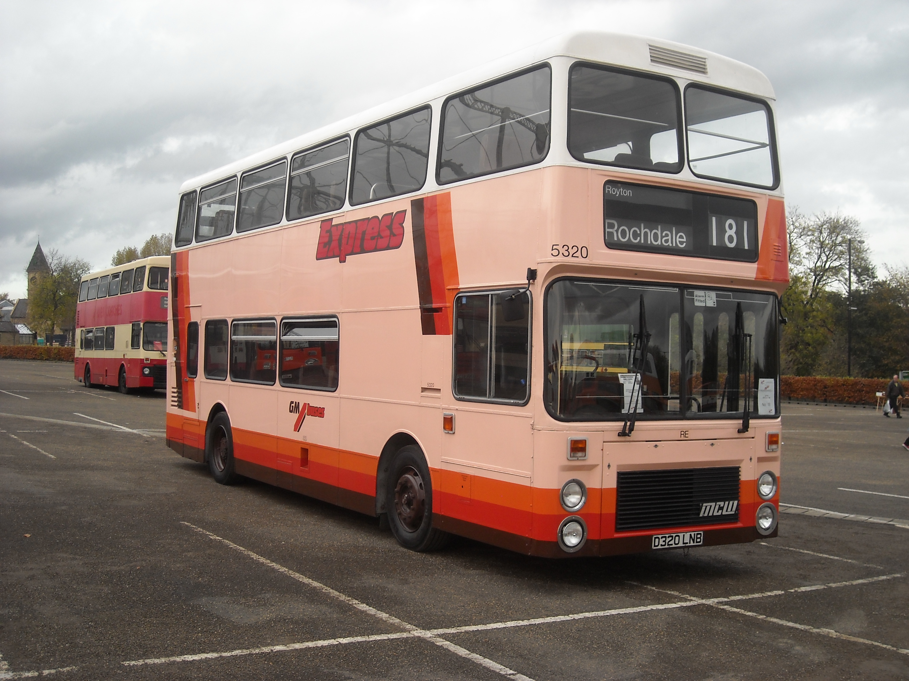 Beautifully restored in the original GM Buses Express livery, this is the Manchester Standard version of the MCW Metrobus, based in Rochdale and at one time based at Princess Road depot and were a common sight in Rochdale, Oldham, Manchester and Wythenshawe (my home area) when they were seen doing the 104 service between Piccadilly and Woodhouse Park (which now runs between Wythenshawe and Piccadilly)